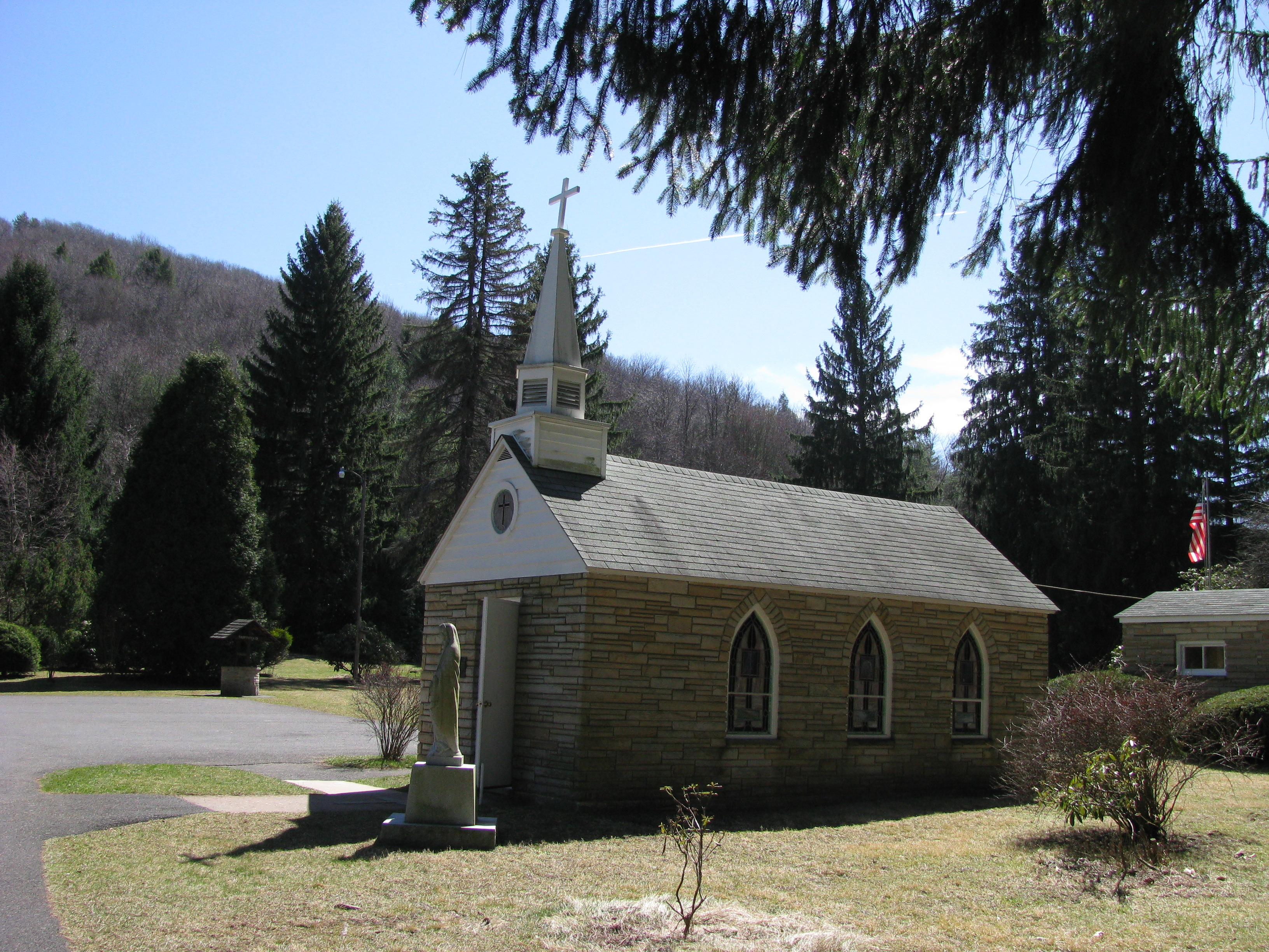 Our Lady of the Pines is advertised as being "the smallest church in 48 states." Preston County, West Virginia.